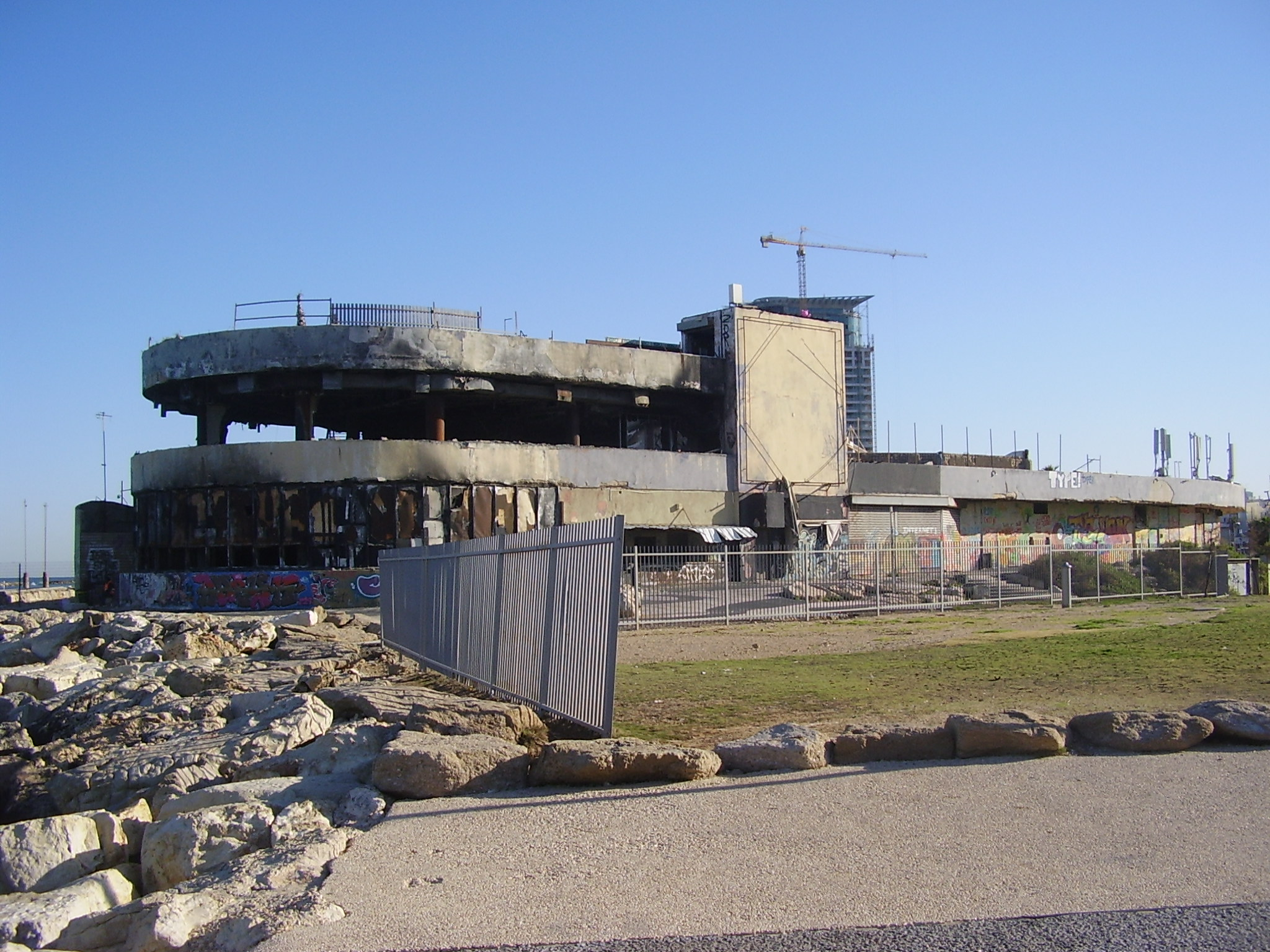 the neglected tel aviv dolphinarium